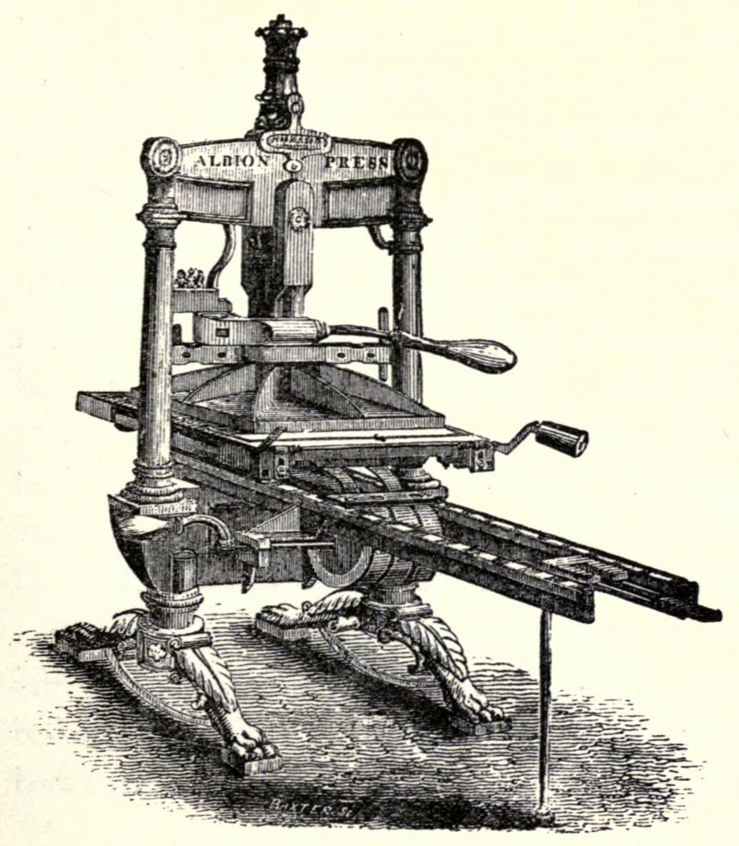 Albion Press, woodcut by George Baxter